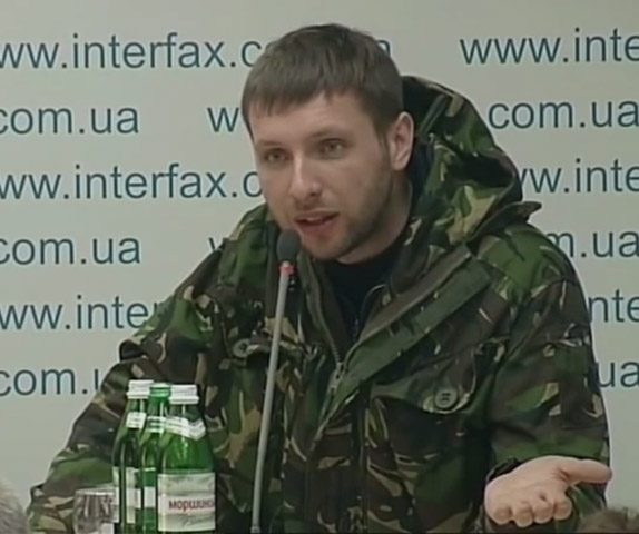 Volodymyr Parasiuk, Ukrainian activist of Euromaidan